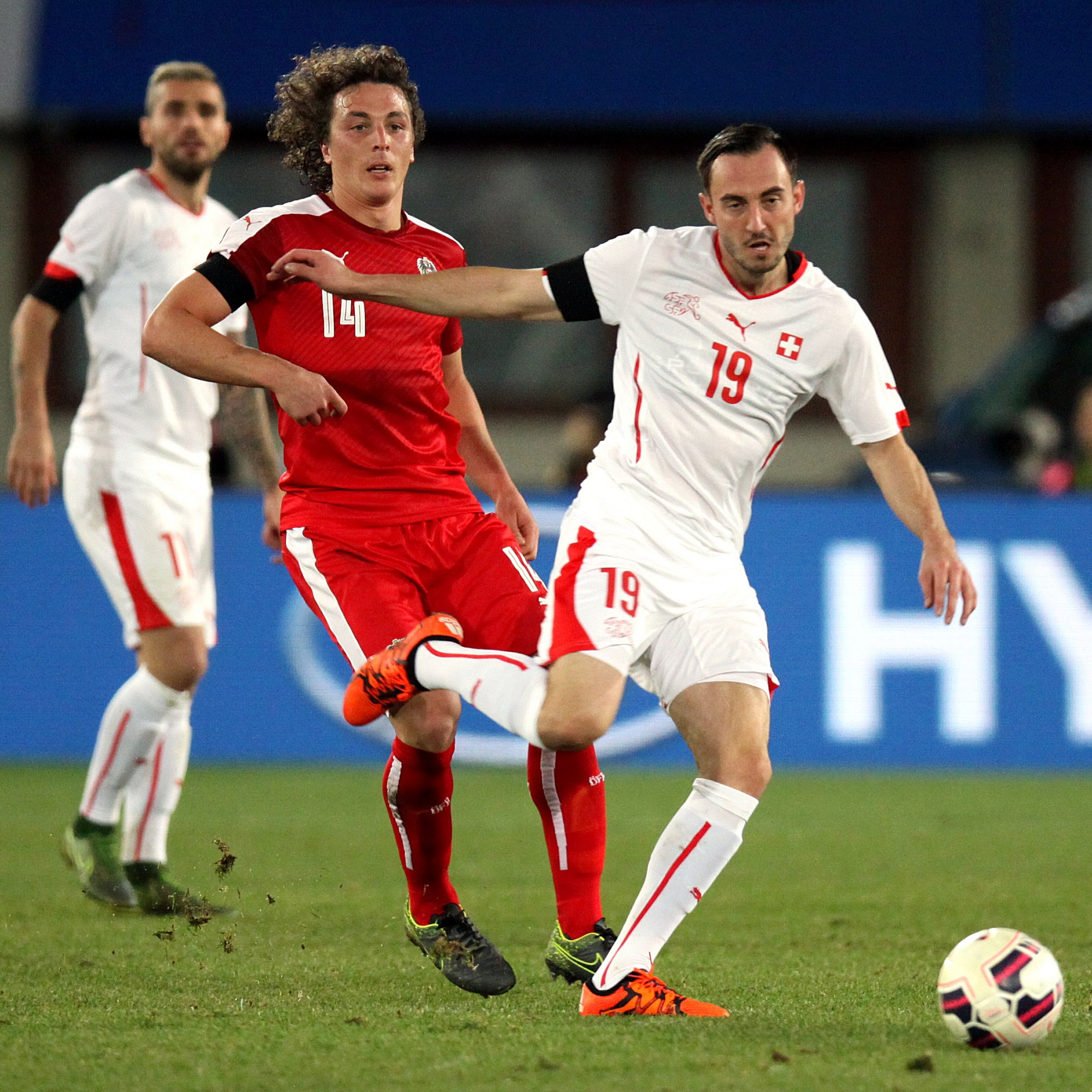 Friendly match – Austria (red shirts) vs. Switzerland (white shirts) 1-2 (1-2) – 2015-11-17 in Vienna, Ernst-Happel-Stadion – The photo shows Julian Baumgartlinger (left) and Josip Drmić (right).